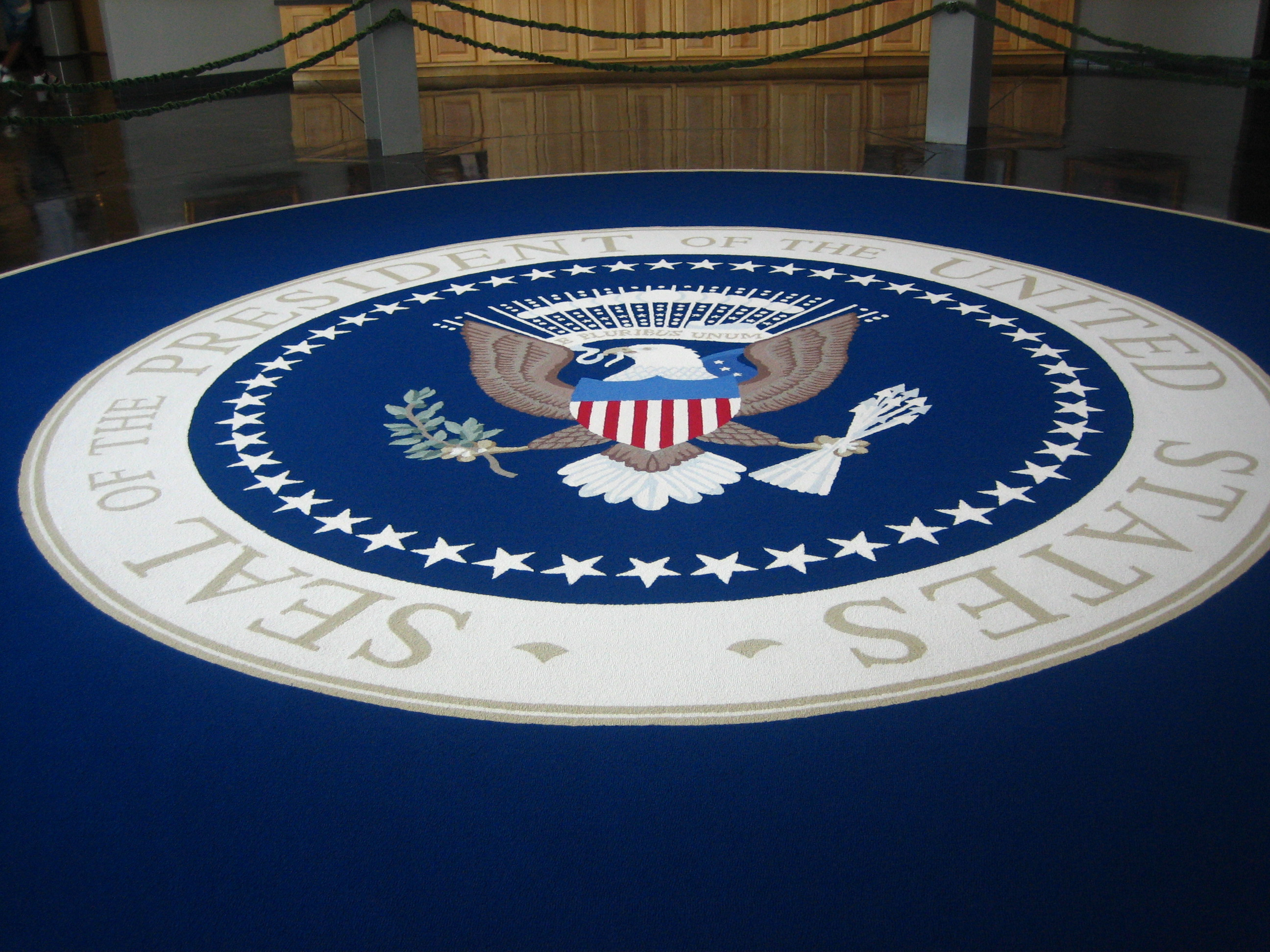 I took photo on July 10, 2008.Billy Hathorn (talk) 00:51, 7 July 2009 (UTC)